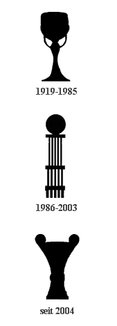 Evolution of the Austrian Cup winner's trophy